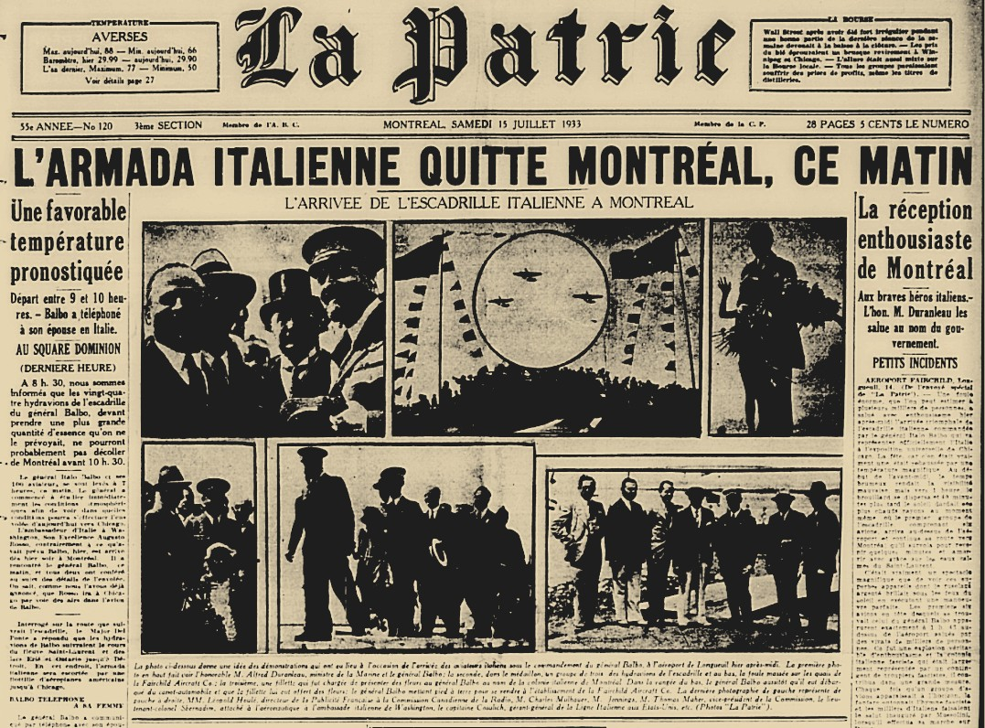 La Patrie newspaper, Montréal, Saturday 15 July 1933.